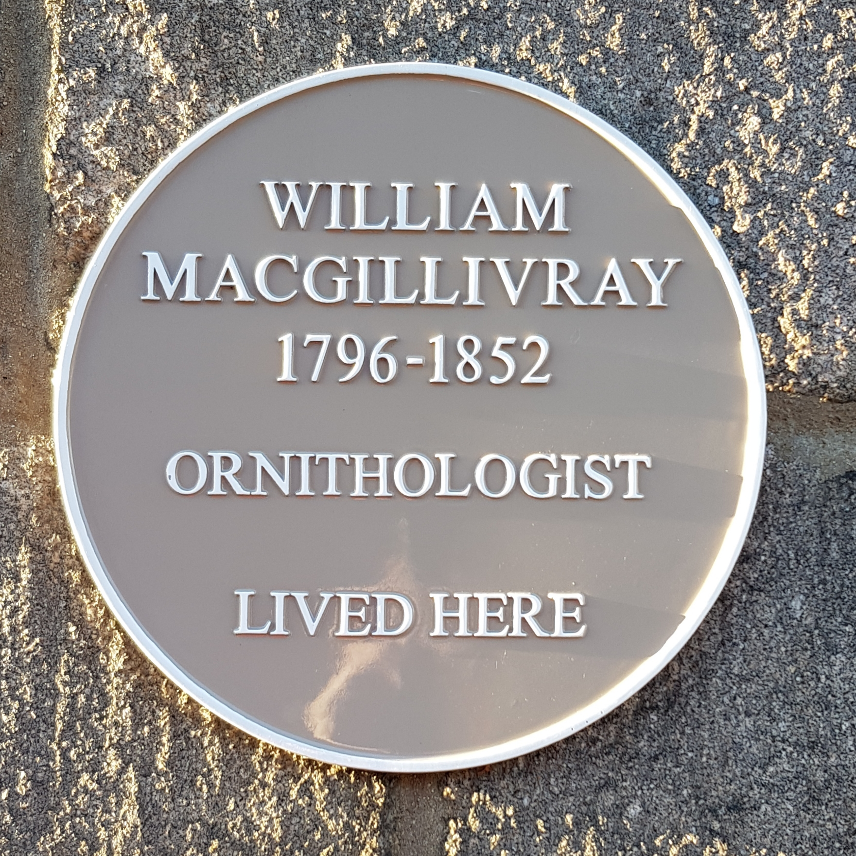 Commemorative plaque to William Macgillivray